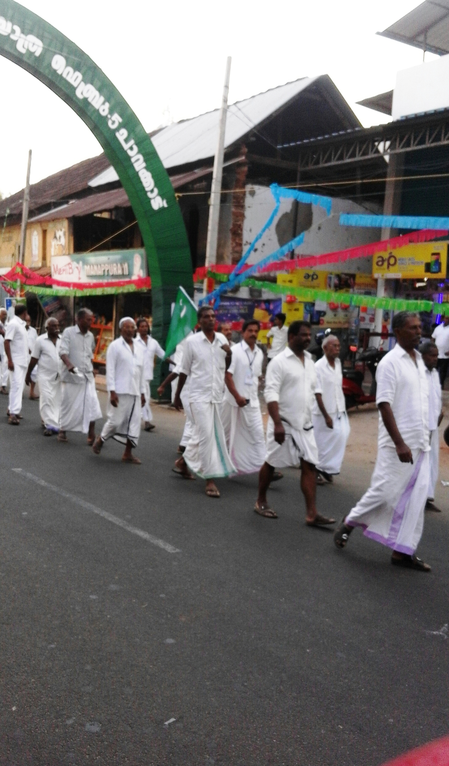 Chavakkad, Thrissur district, Kerala Province, India.